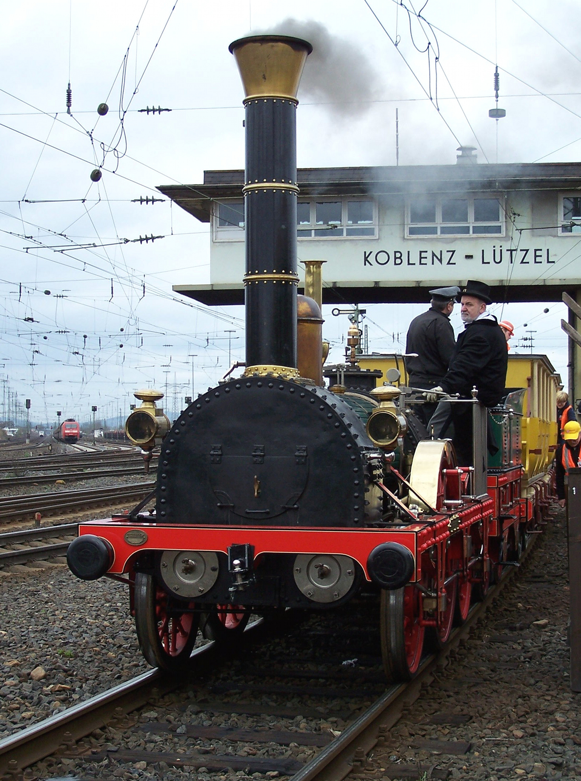 reconstruction of the first steam locomotive in Germany Adler (reproduction of 1935, rebuilt 2007), at the DB Museum in Koblenz-Lützel, a local branch of the Transport Museum in Nuremberg, April 2010